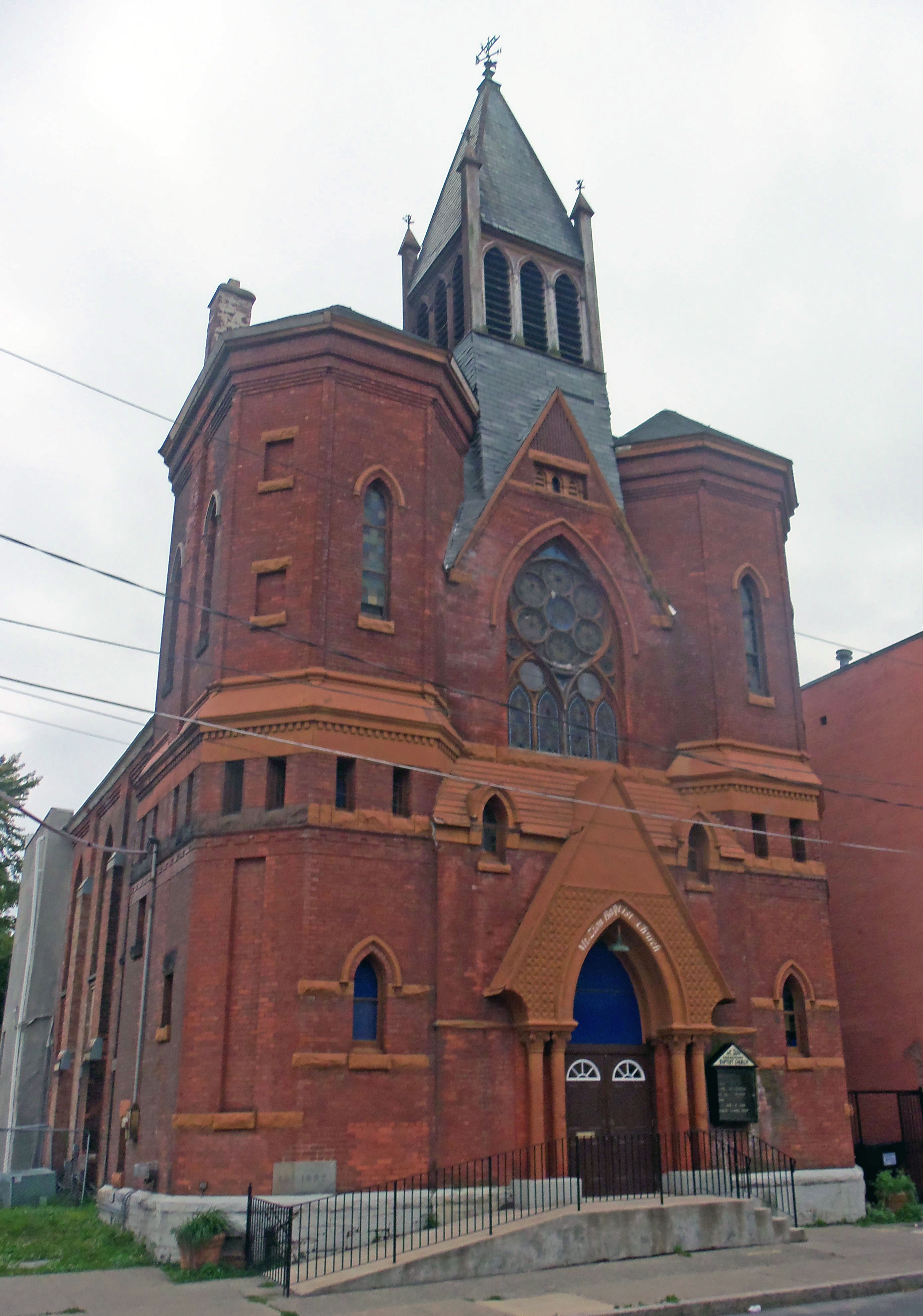 Mt. Zion Baptist Church, a contributing property to the South End–Groesbeckville Historic District